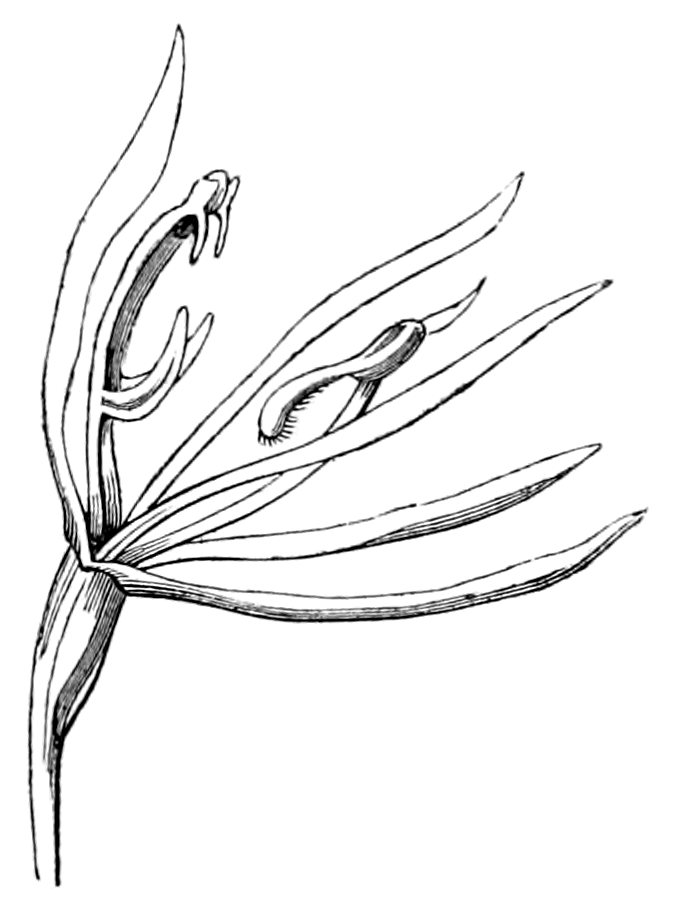 This is a scan of Figure 4 from John Lindley's A Sketch of the Vegetation of the Swan River Colony. It depicts the flower of Spiculaea ciliata (Elbow Orchid).